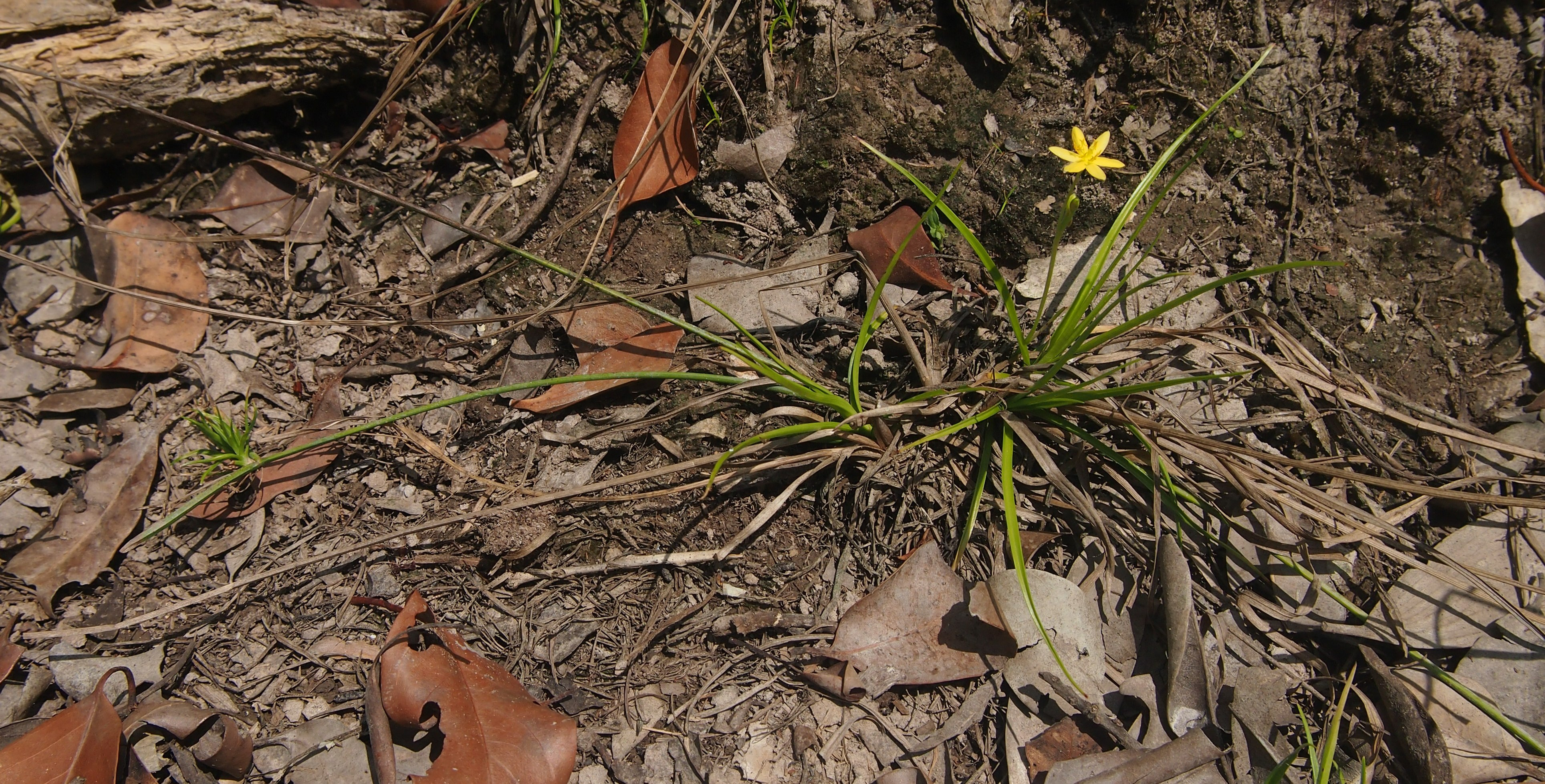 Hypoxis pratensis habit